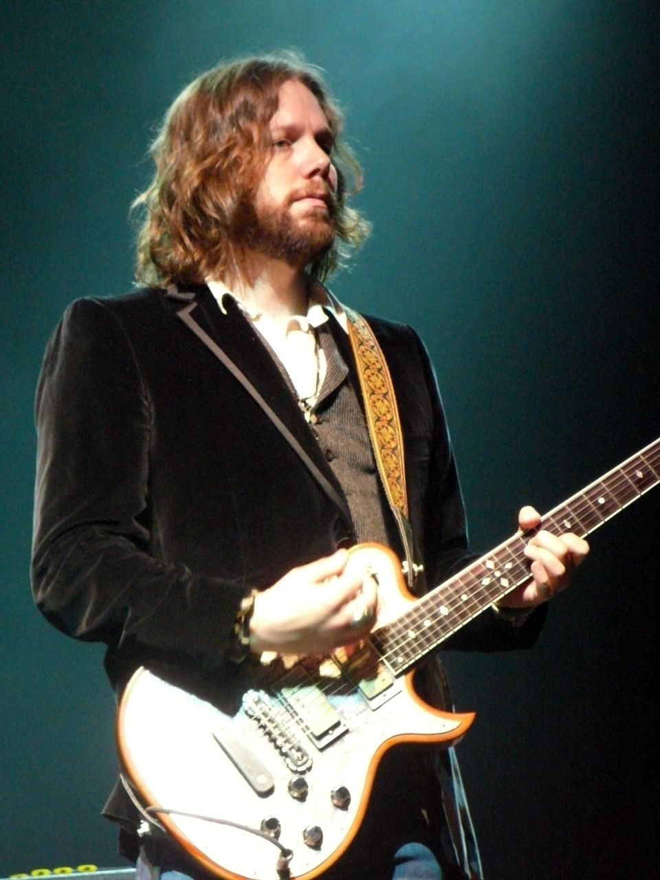 Rich Robinson (The Black Crowes) performing in Paddington - Sydney, Australia in 2008.